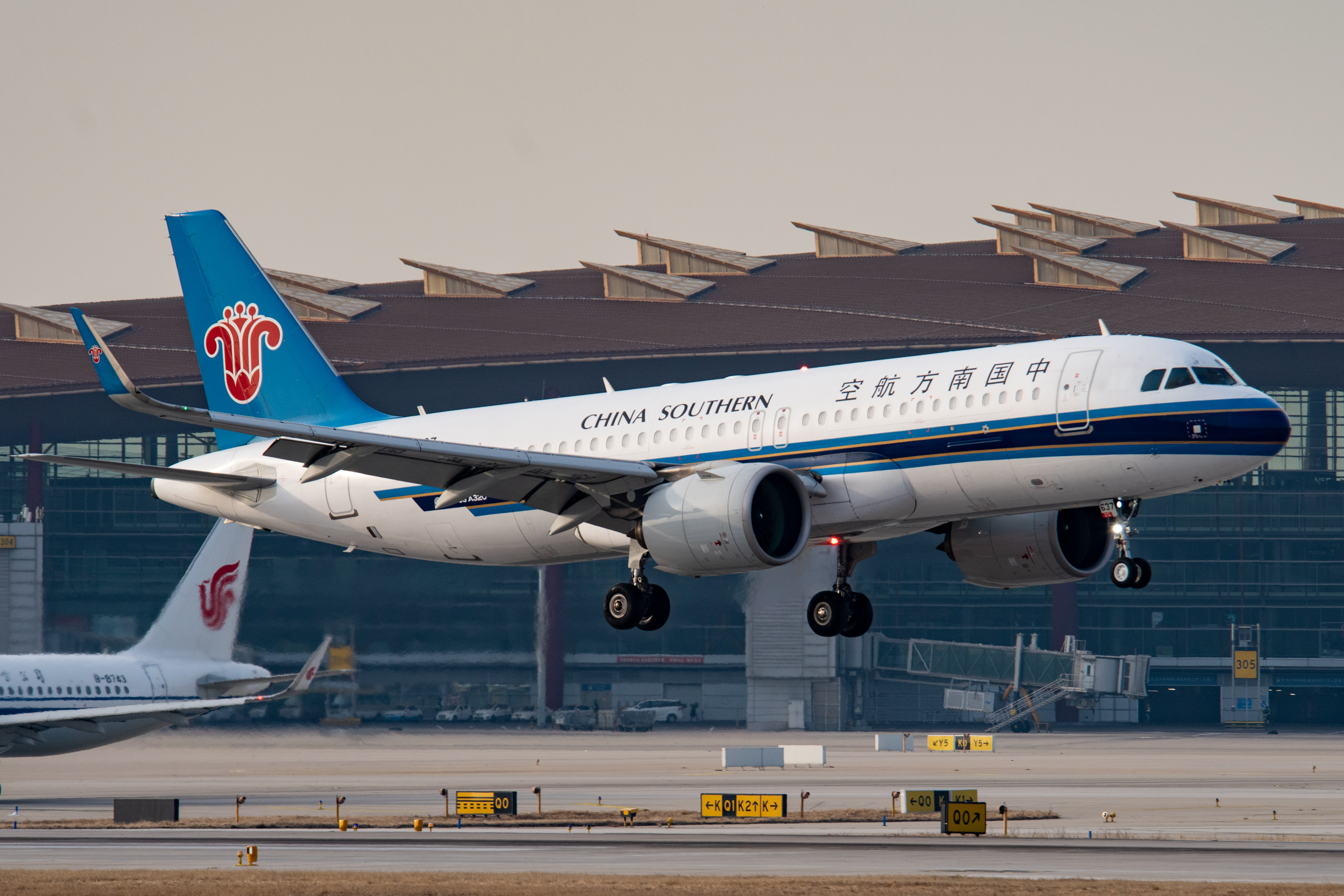 Nanfang 6101 from Shenyang. Hey it's a Neo!